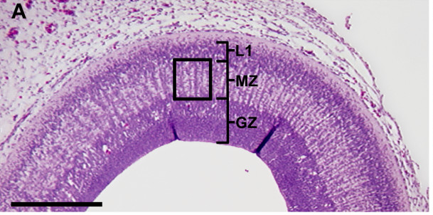 A) H&E staining of chicken optic tectum at HH30(E7) showing the generative zone (GZ), the migrating zone (MZ) and the first neuronal lamina (L1). Scale bar 200 μm. Caltharp et al. BMC Developmental Biology 2007 7:32